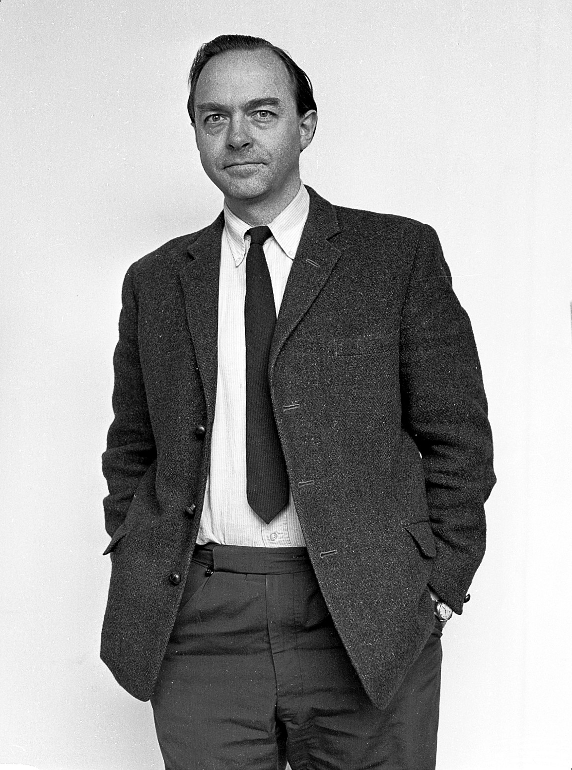 Portrait of Edwin Clarke in the Wellcome Historical and Medical Museum and Library Iconographic Collections Keywords: Wellcome Historical Medical Museum (London); Fletcher